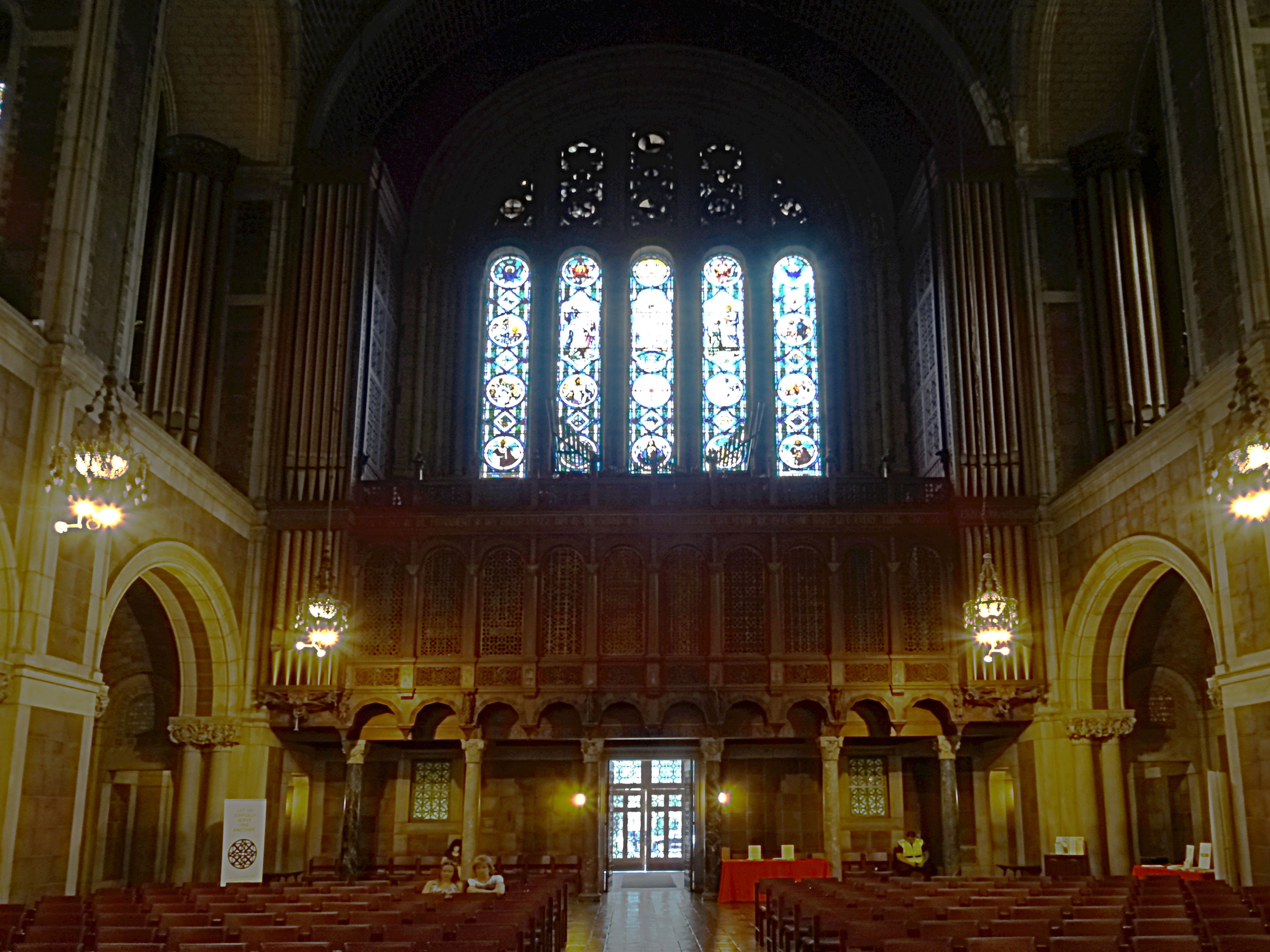 Gallery Organ by Ernest M. Skinner (1917) at the West Gallery in St. Bartholomew's (NYC Park Avenue); Opus 275 IV/P 109 stops with 7587 Organ pipes; with the following extensions of Aeolian-Skinner (Northern + Southern Chancel Organ, Celestial Organ) Opus 275-E/F VP/ 168 stops and 12,422 pipes; largest organ in New York[2]